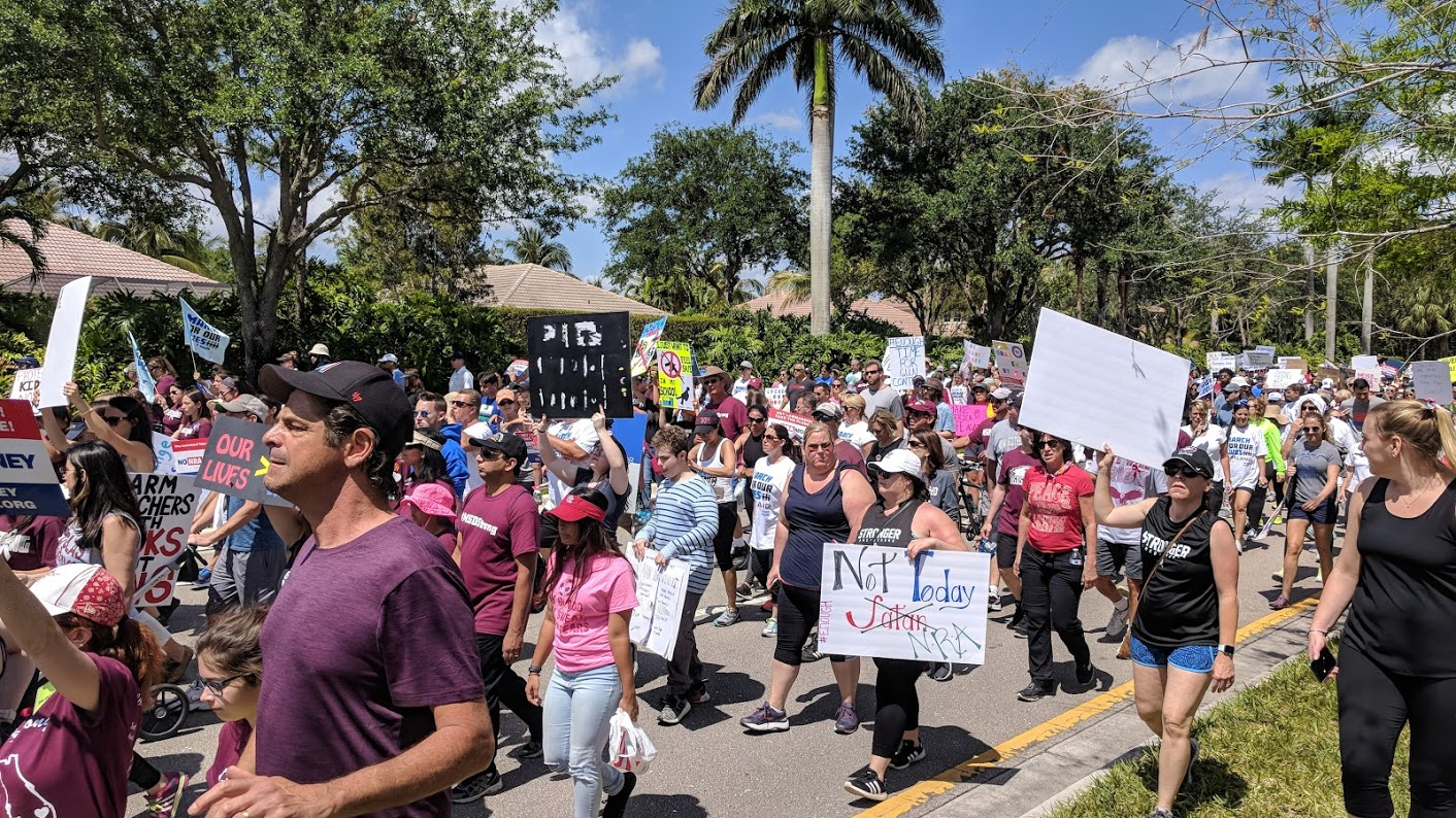 Students and alumni from Marjory Stoneman Douglas High School, parents, and Parkland residents march together for the March For Our Lives protest in Parkland, FL on March 24, 2018.